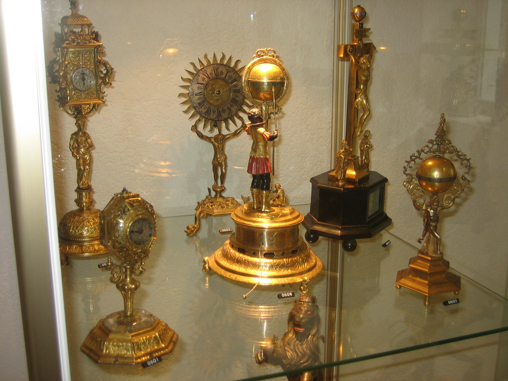 An image of several renaissance clocks at the Uhrenmuseum Roeslistrasse in Zuerich Switzerland